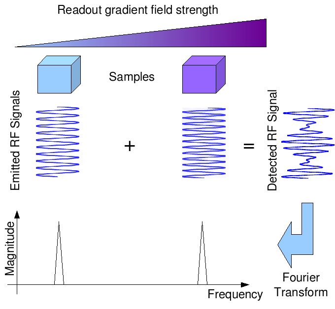 Frequency encoding in MRI.